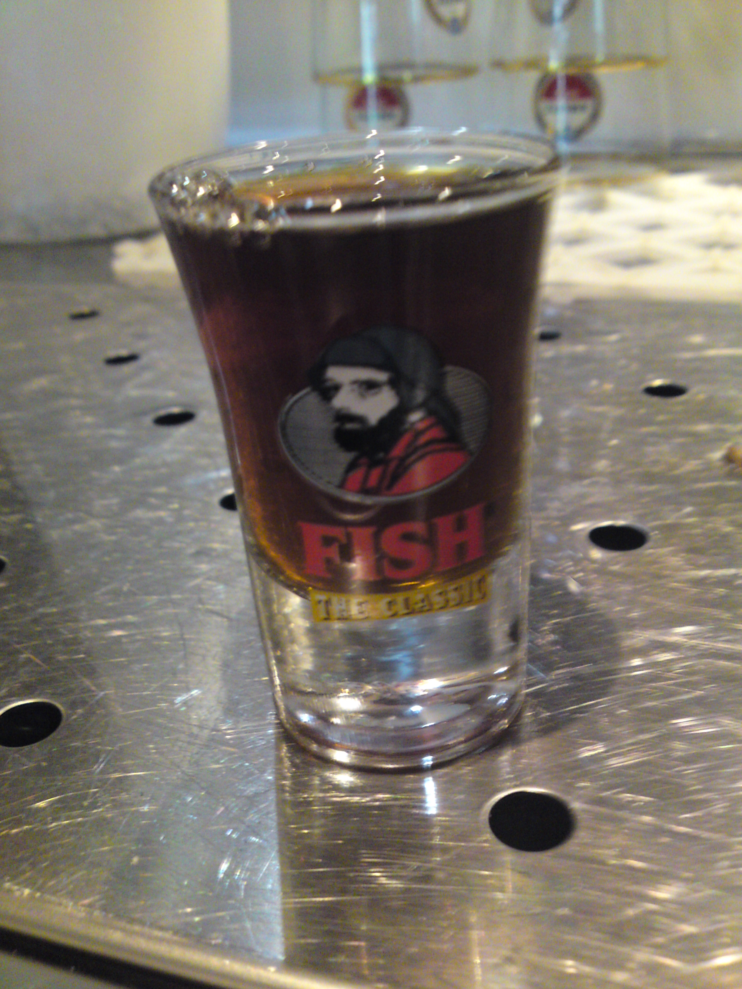 Danish drank Fishshot